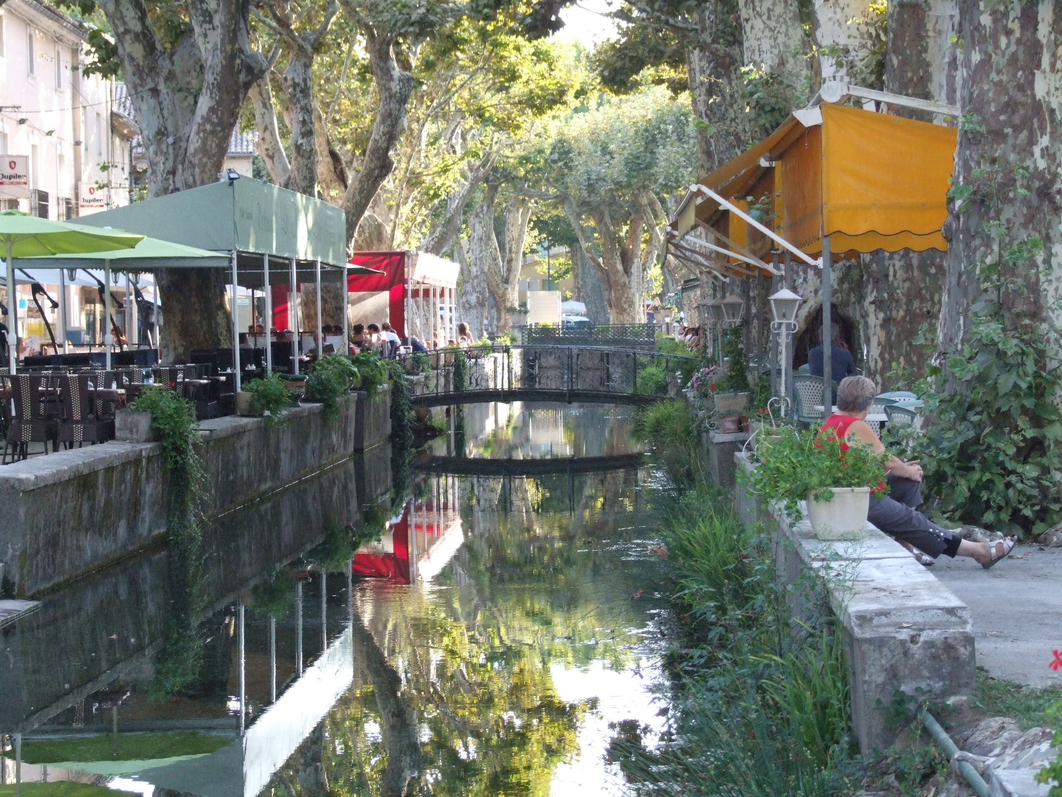 Goudargues, ( post code is F30630 and INSEE 30131). in Gard, France. On the Quai de la Fontaine- there are many cafés